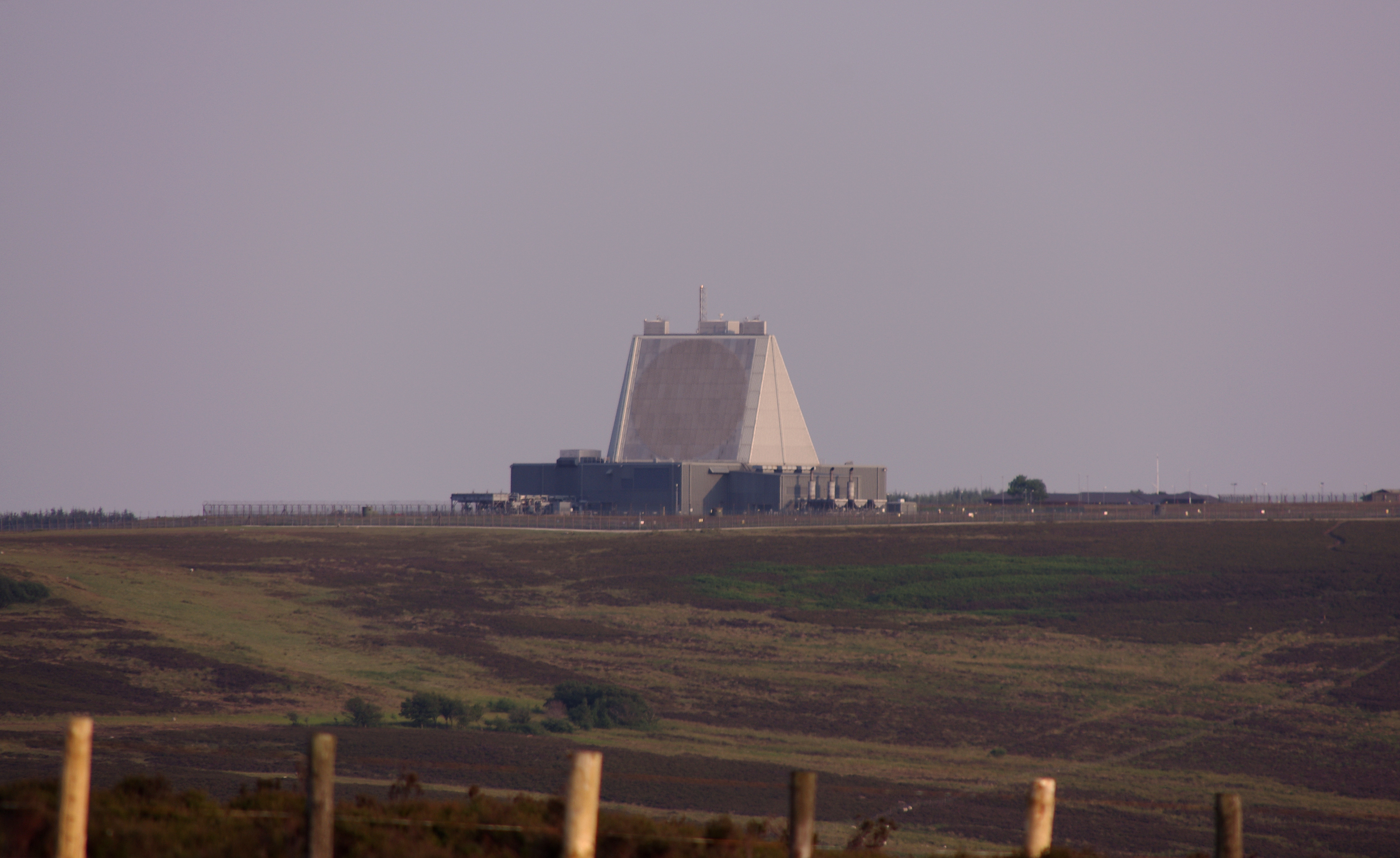 RAF Fylingdales radar station. I can't help but feel it should be Flyingdales.